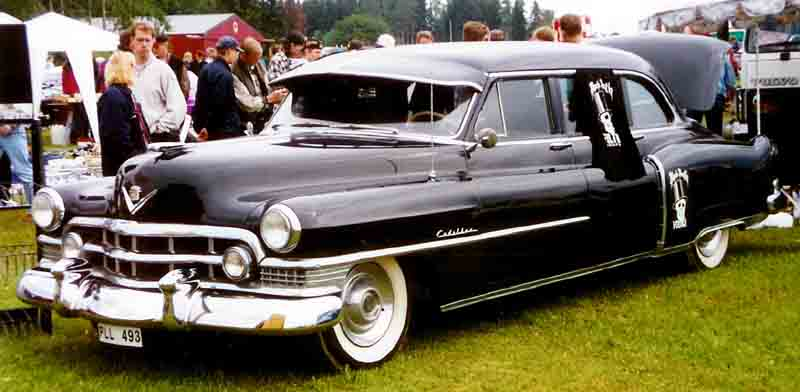 1951 Cadillac Series 50-75 Imperial Sedan (the grillwork below the headlight indicates it is a 1951, not a 1950)